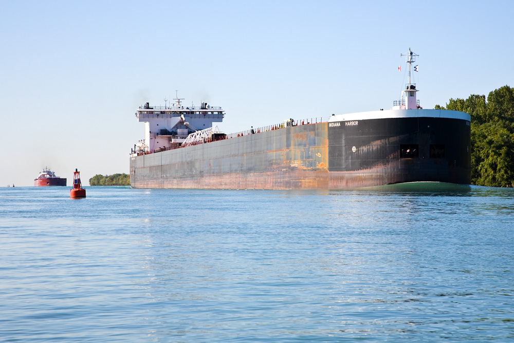 Indiana Harbor and Presque Isle Head north up the Detroit River Gibraltar, Michigan